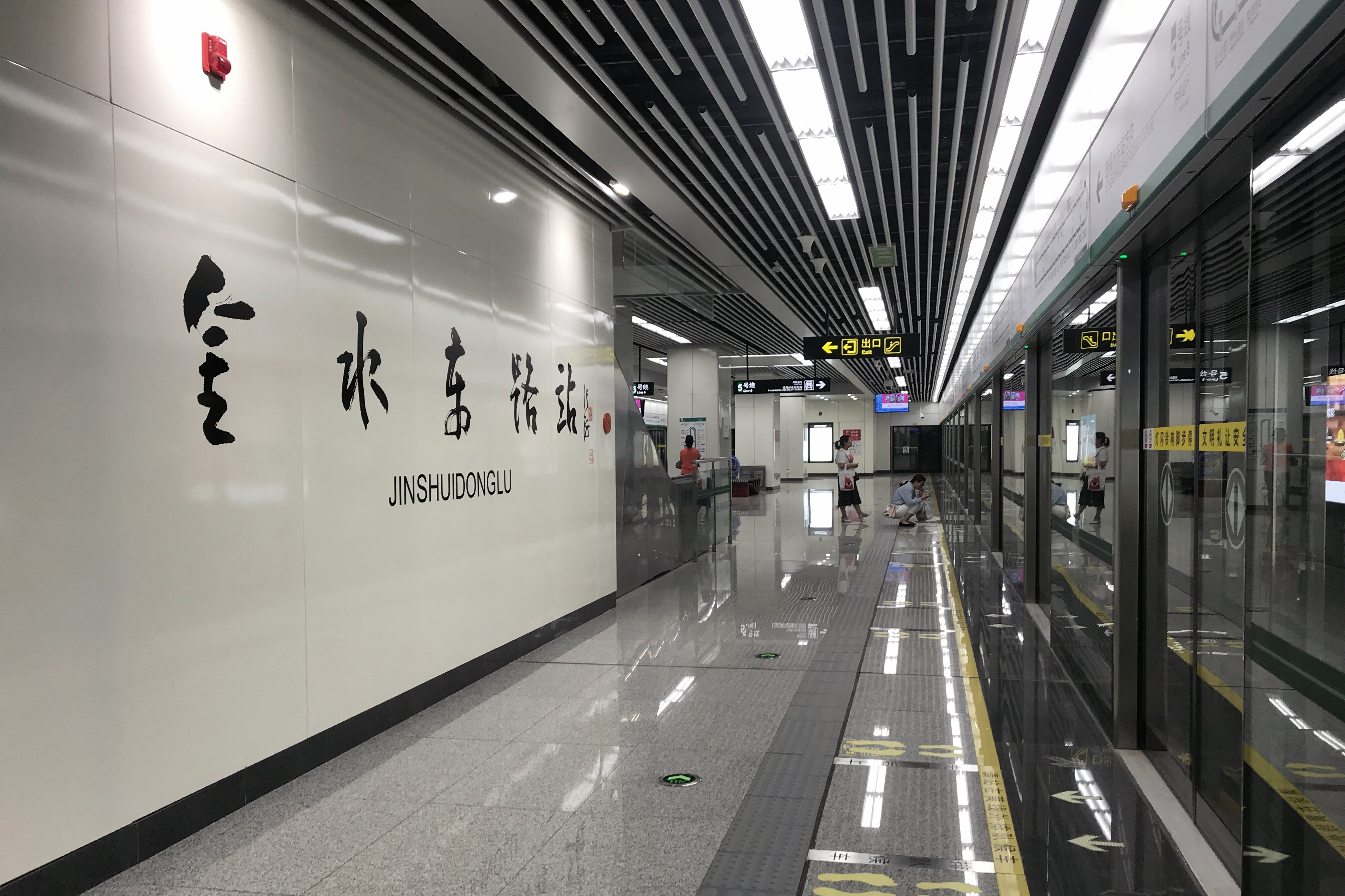 Platform of Jinshuidonglu Station